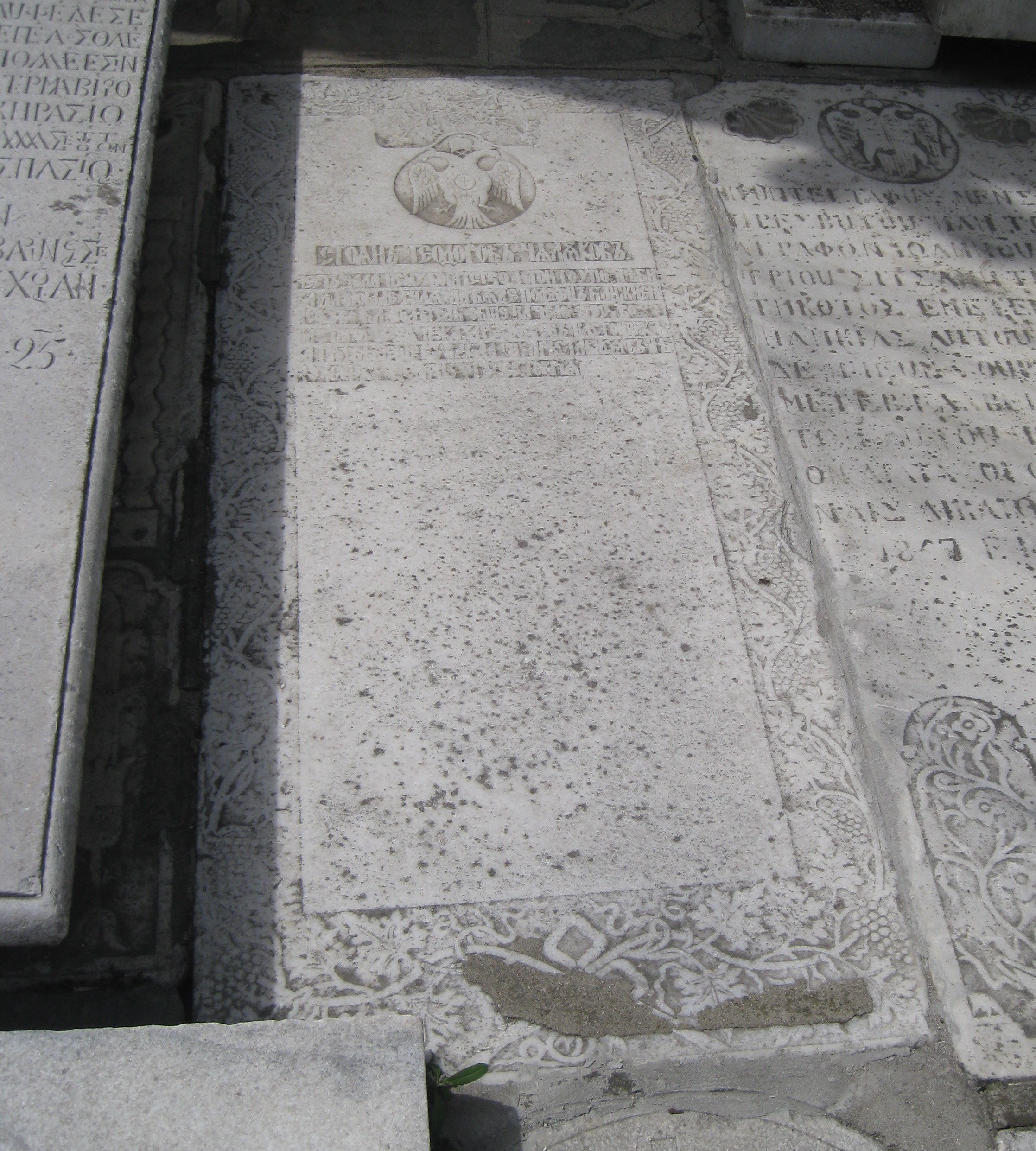 Tombstone of Stozan Todorv Chalukov in the zard of the Church of the Mother of God, Plovdiv, Bulgaria